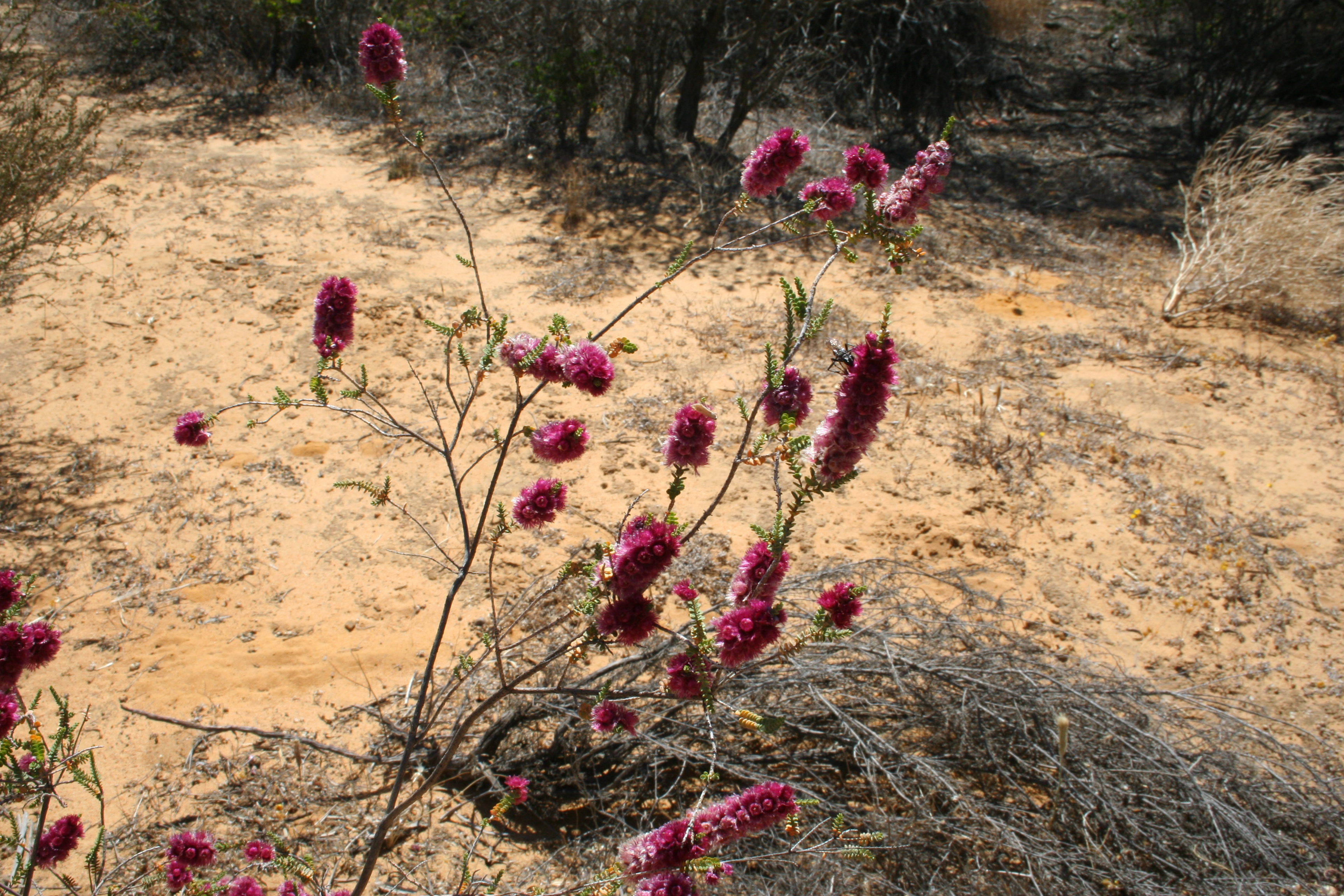 Verticordia venusta - northern wheatbelt, I'd guess about 300 km NNE of Perth (were on our way to see Banksia benthamiana and stopped off by the roadside)